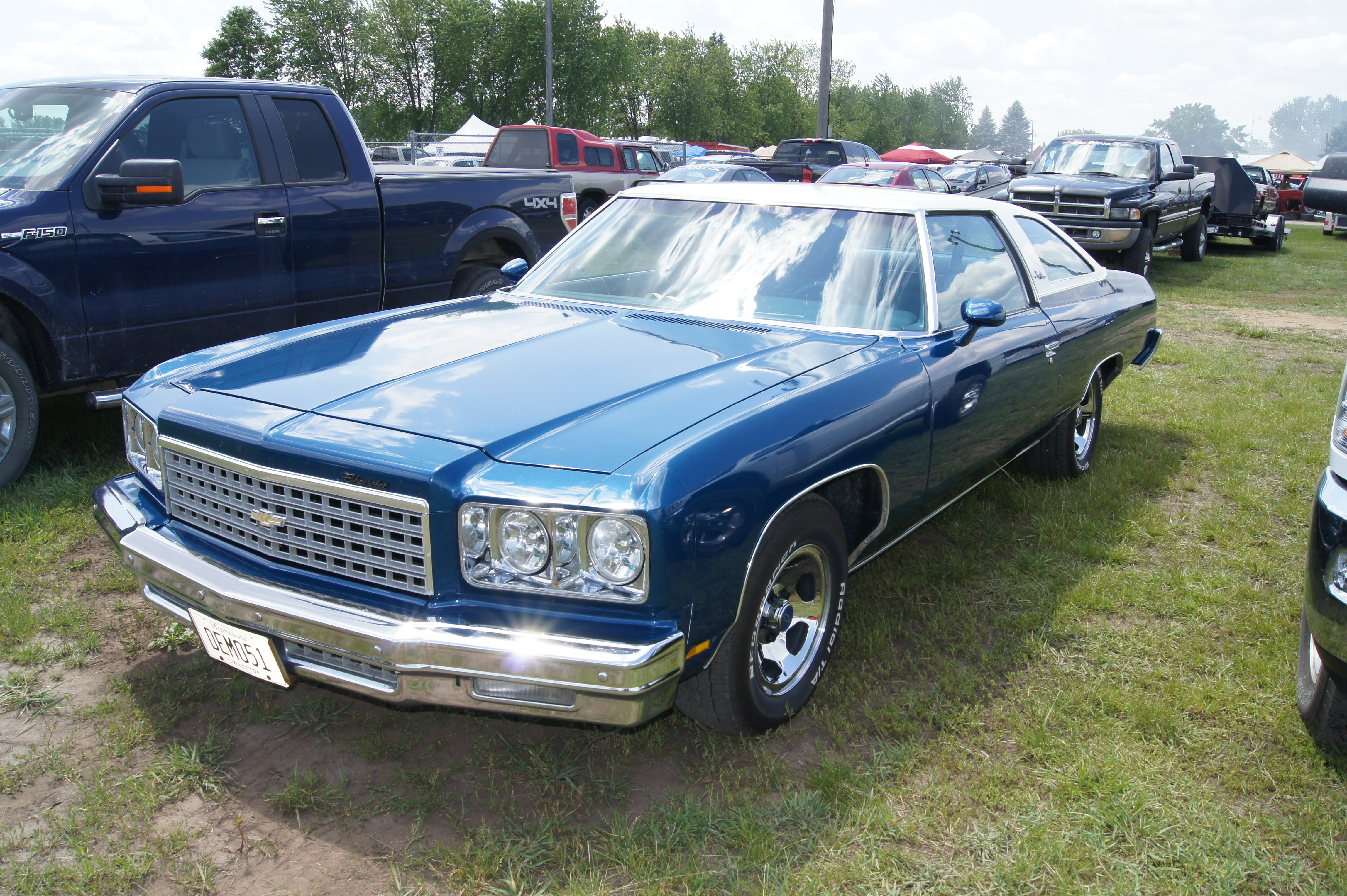 28th Annual Midwest Mopars in the Park June 2, 2012